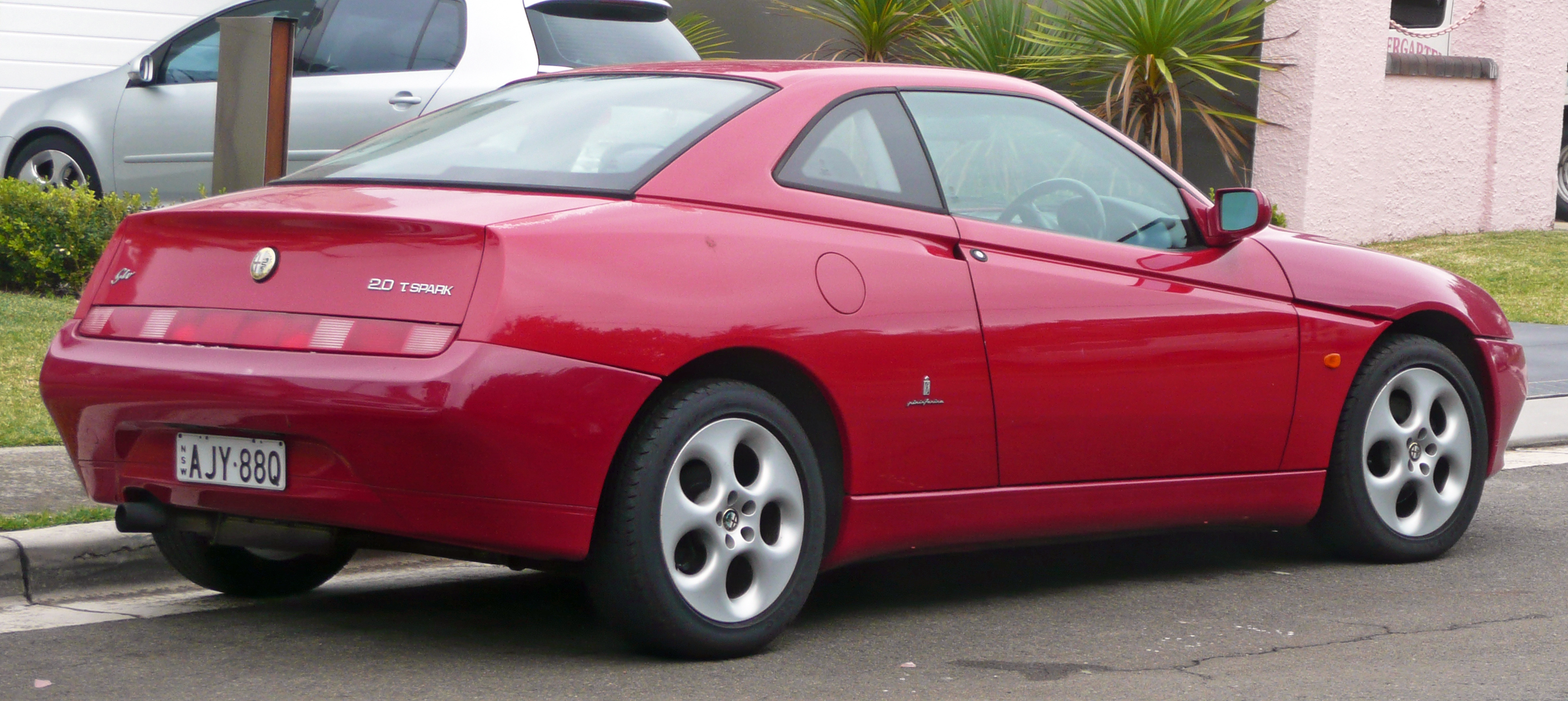 2001 Alfa Romeo GTV Twin Spark coupe. Photographed in Cronulla, New South Wales, Australia.